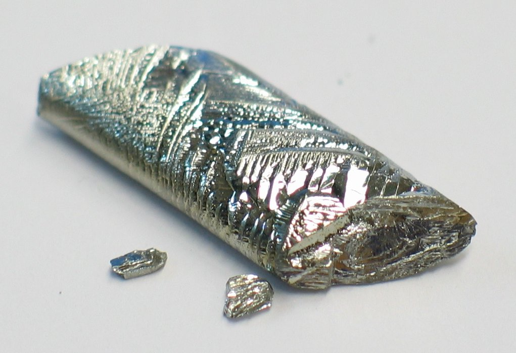 Ultra pure tellurium crystal. Length ca. 2cm. Image taken by User:Dschwen on January 5th 2006.